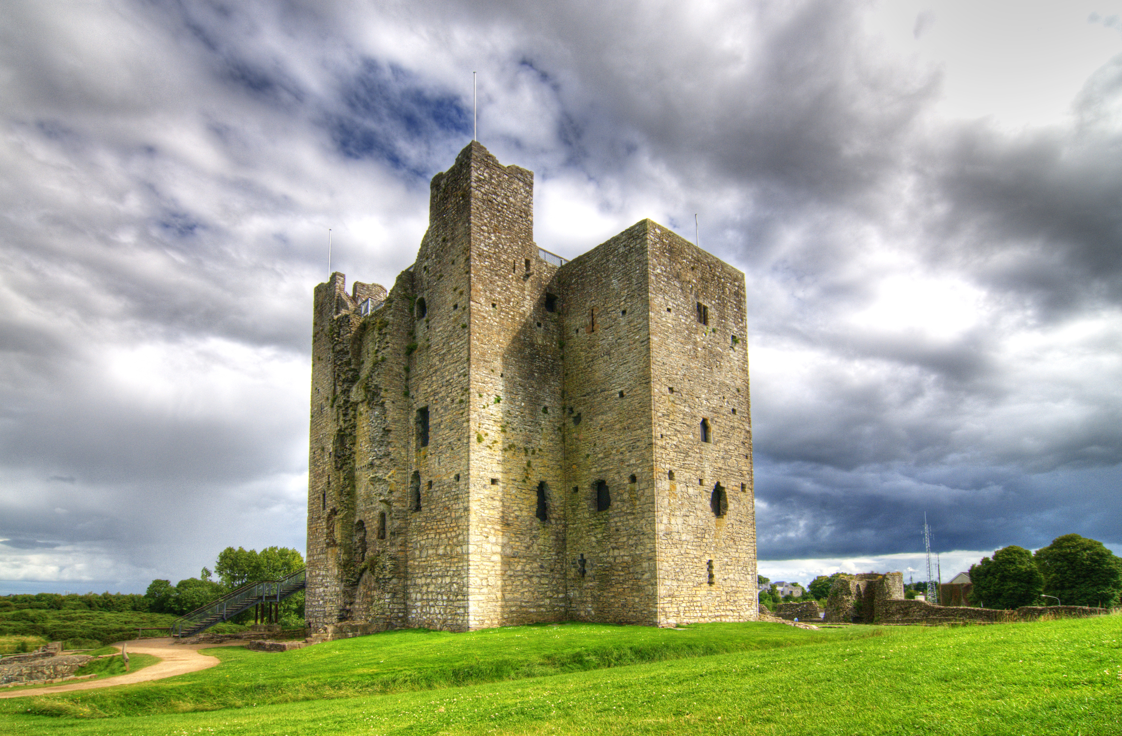 Trim Castle